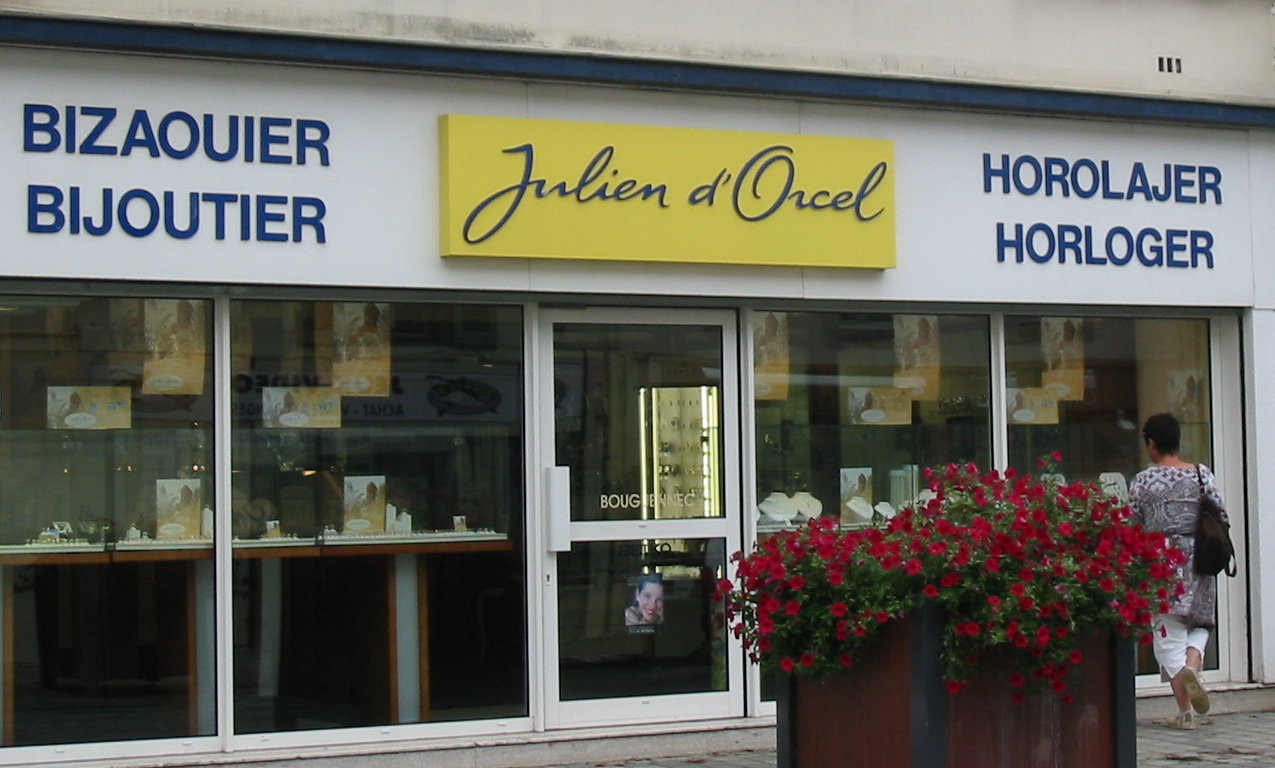 Bilingual signage, jewellers in Carhaix, Brittany